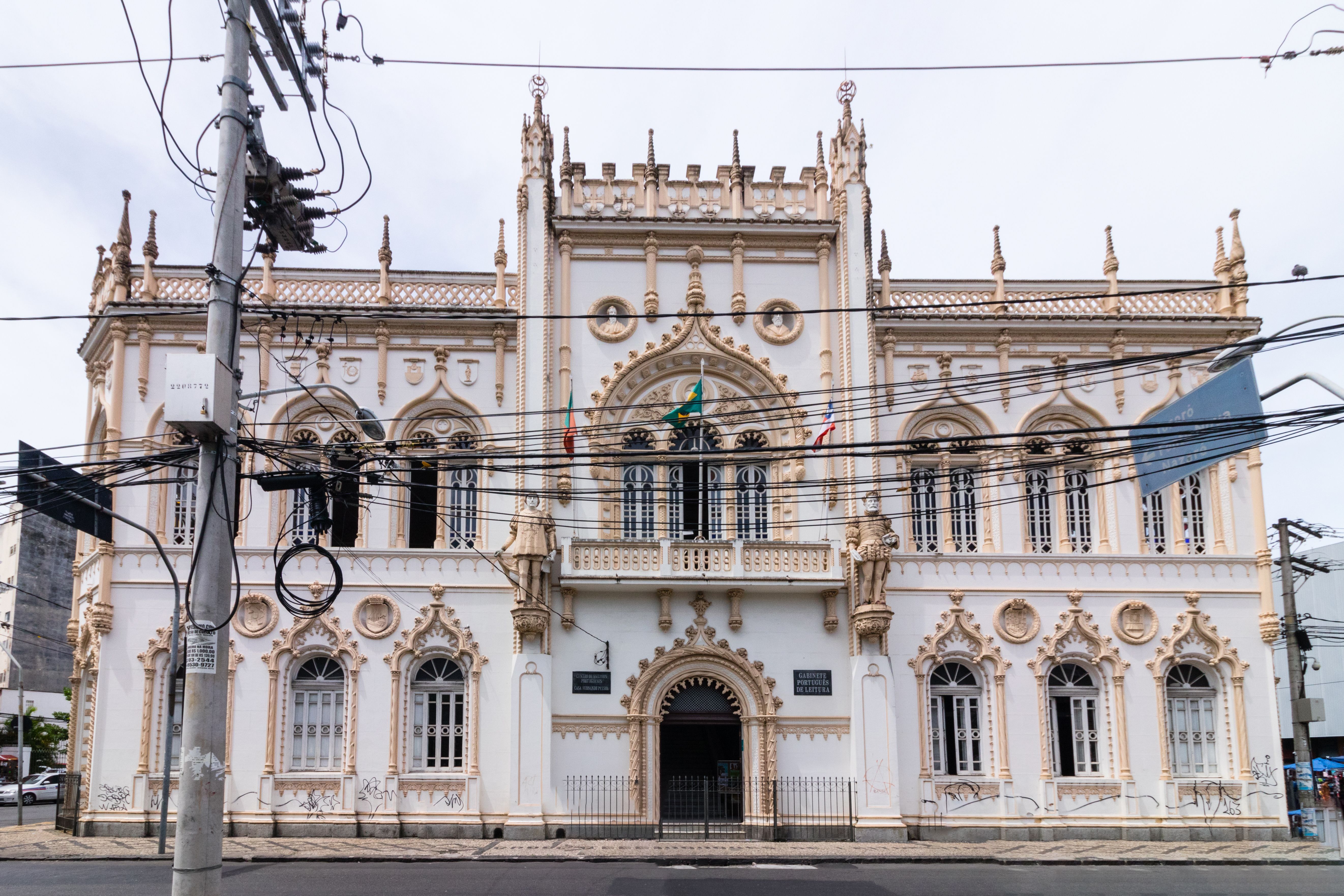 Gabinete Português de Leitura, Salvador, Bahia, Brazil.